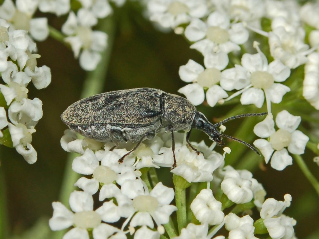 M. curculioides